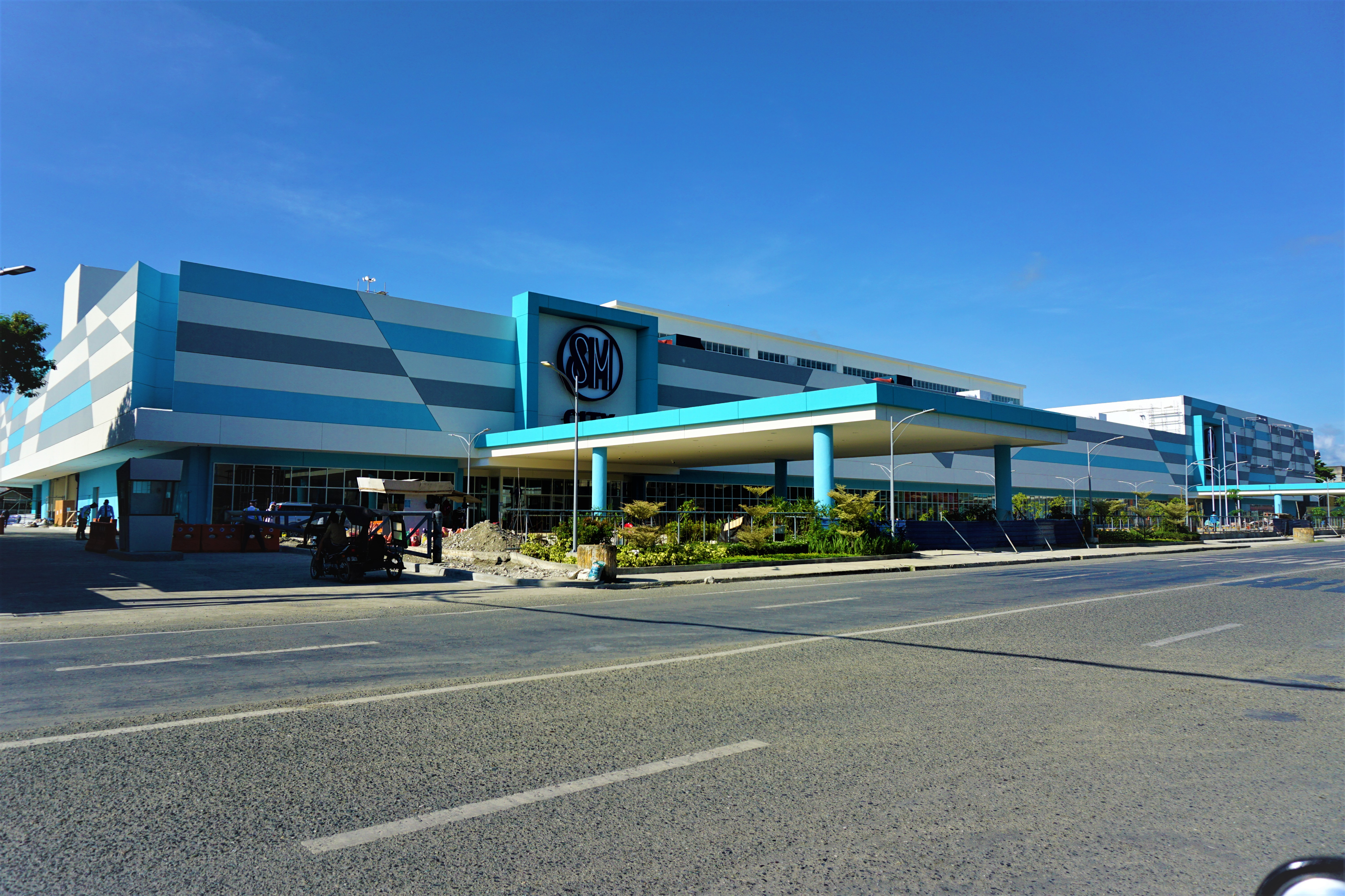 SM City Butuan was suppossedly opened on April 17, 2020. However it was postponed due to COVID-19 Pandemic in the country and the entire World